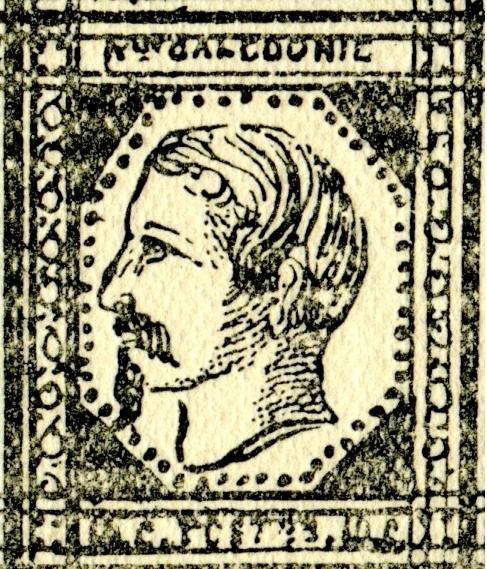 A first New Caledonia stamp (position No. 23 in the stamp sheet of 50) issued by Louis Triquéra in 1860 that depicts Napoleon III of France.